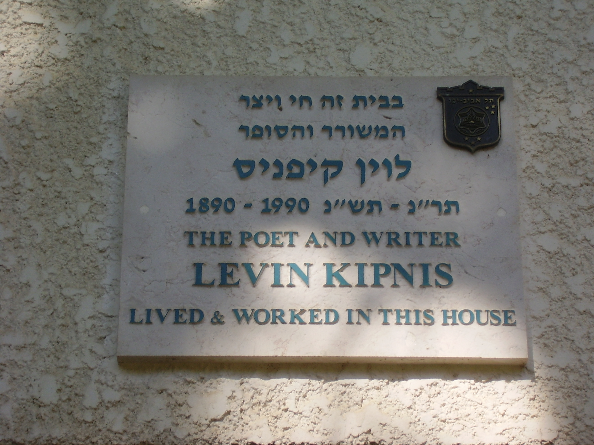 memorial plaque to the poet and writer levin kipnis in tel aviv לוחית זיכרון על ביתו של לוין קיפניס ברח' ברנדייס 3 בתל אביב